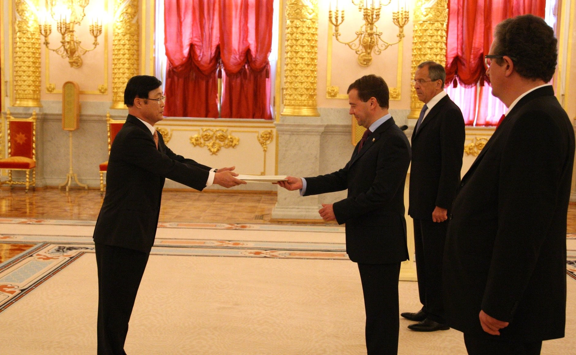 Presentation by foreign ambassadors of their letters of credence. Dmitry Medvedev receives a letter of credence from Ambassador of the Republic of Korea Lee Yun-ho.